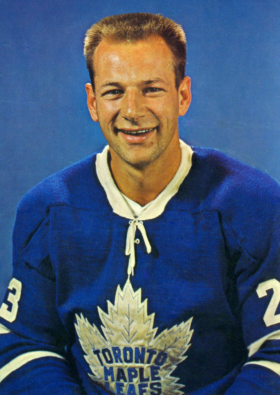 Trading card of Eddie Shack as a member of the Toronto Maple Leafs. These cards were printed on the backs of Chex cereal boxes in the US and Canada from 1963 to 1965. Those collecting the cards cut them from the back of the boxes. Shack's card at PSA.